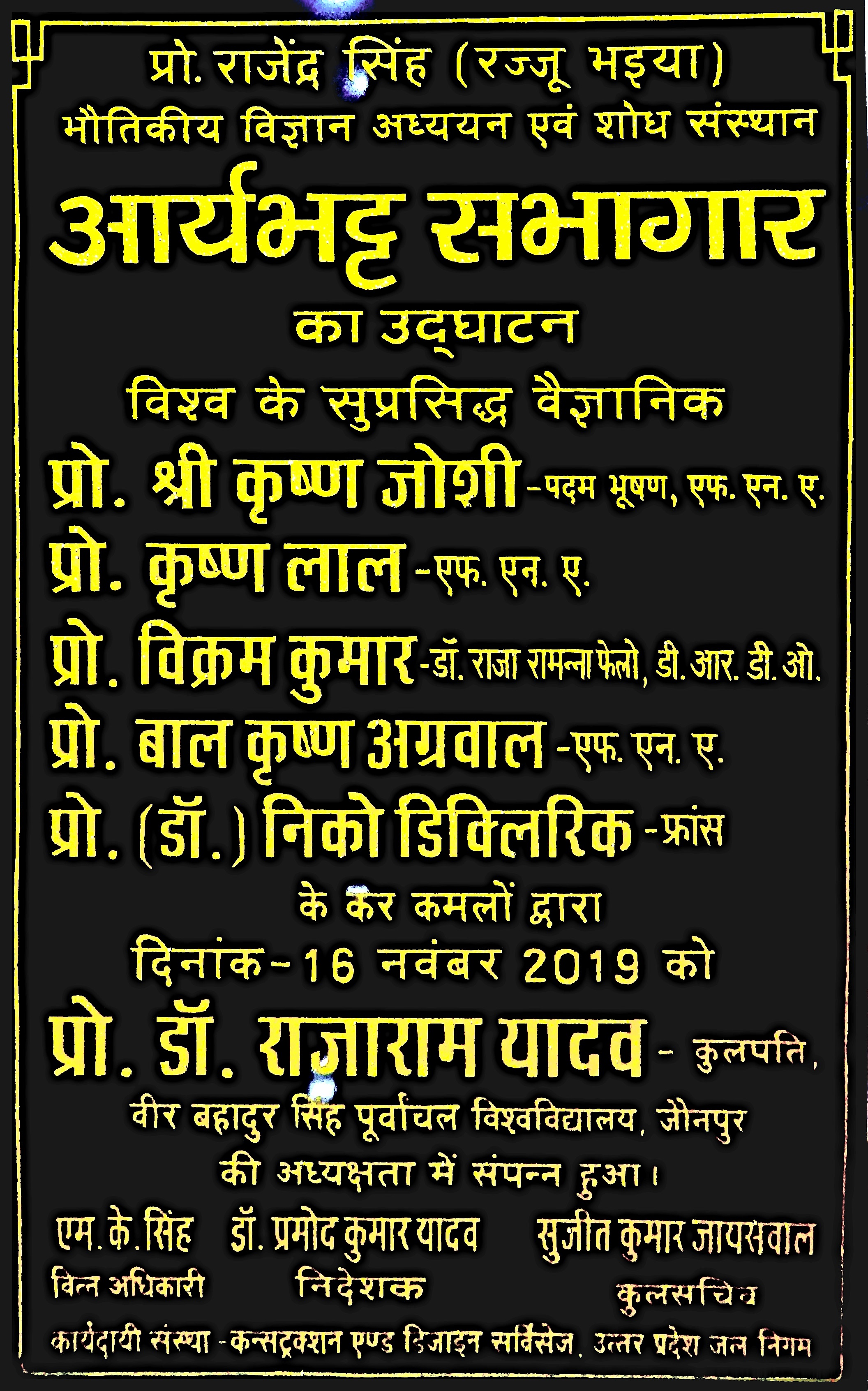 Granite Plaque located at the Aryabhata Auditorium of the Physics Department “Prof. Rajendra Singh (Rajju Bhaiya) Institute of Physical Sciences for Study and Research” of the Veer Bahadur Singh Purvanchal University, Jaunpur, India. Translation from Hindi :”Prof. Rajendra Singh (Rajju Bhaiyya) Institute of Physical Sciences for Study and Research's Aryabhata Auditorium, was inaugurated by the hands of world renowned scientists Prof. Shri Krishna Joshi - Padma Bhushan F.N.A, Prof. Krishna Lal - F.N.A, Prof. Vikram Kumar - Dr Raja Ramanna Fellow, DRDO, Prof. Bal Krishna Agrawal - F.N.A, Prof. (Dr) Nico Declercq - France, on 16 November 2019, and by Prof. Dr Rajaram Yadav - Vice Chair of Veer Bahadur Singh Purvanchal University, Jaunpur.